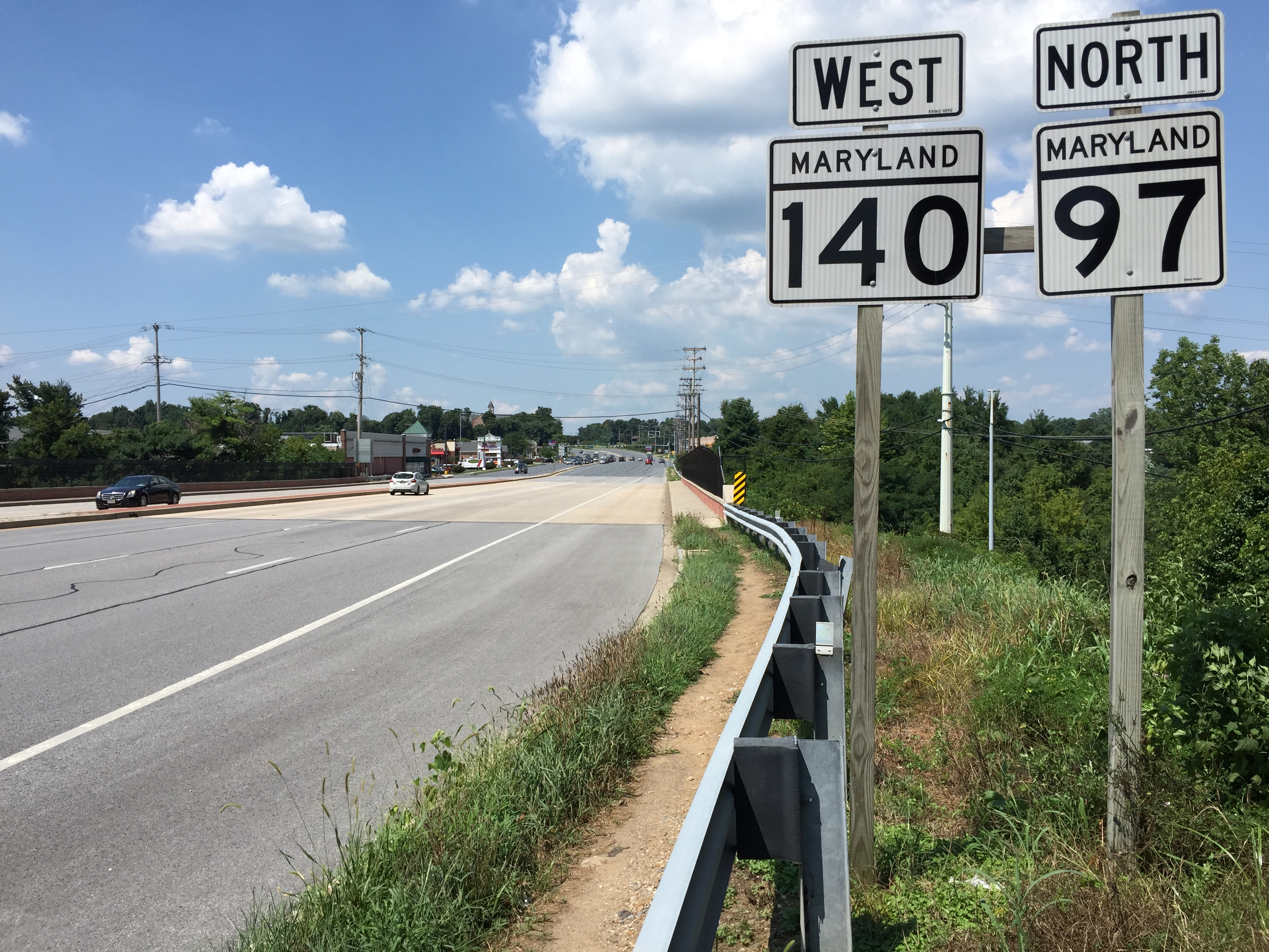 View north along Maryland State Route 97 and west along Maryland State Route 140 (Baltimore Boulevard) at Maryland State Route 27 (Manchester Road) in Westminster, Carroll County, Maryland